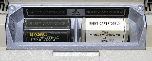 Atari 800 cartridge slots with cartridges BASIC and Monkey Wrench II